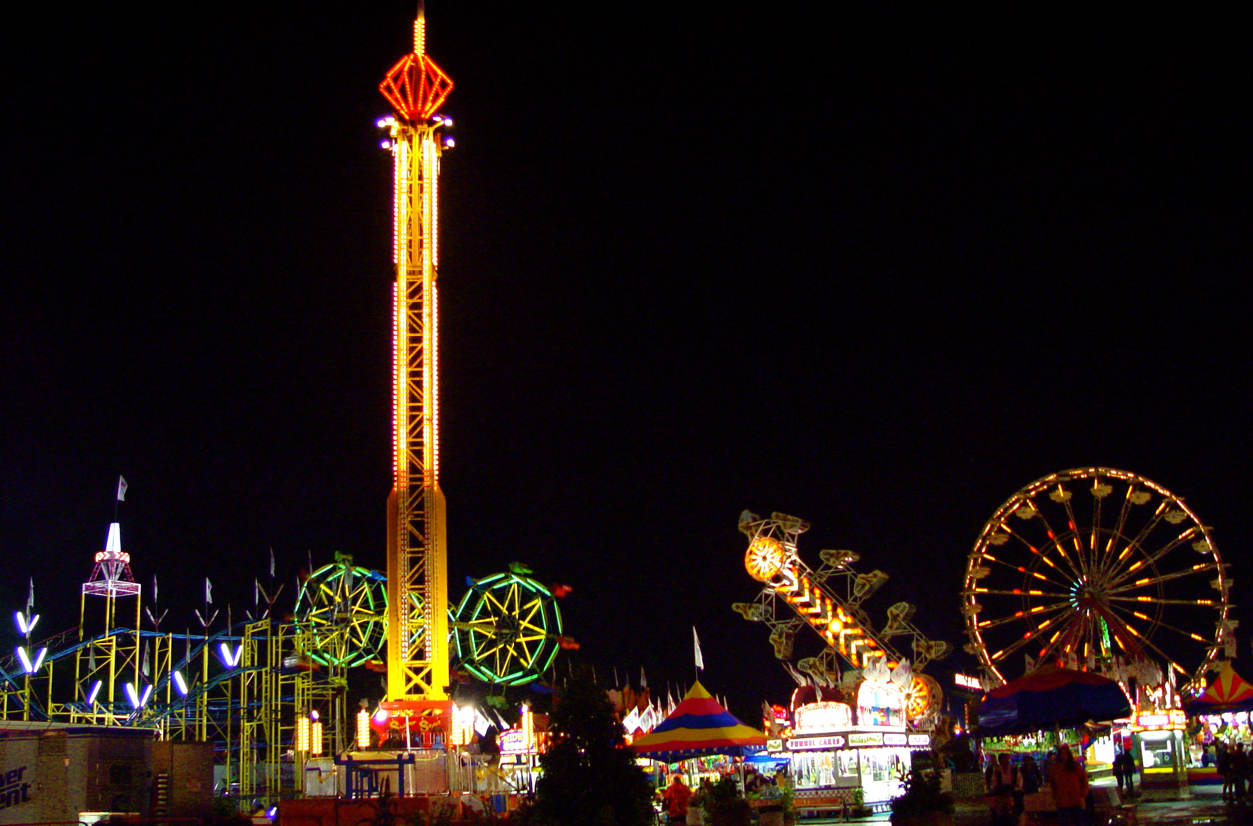 Rides on the midway, Minnesota State Fair, Falcon Heights, Minnesota